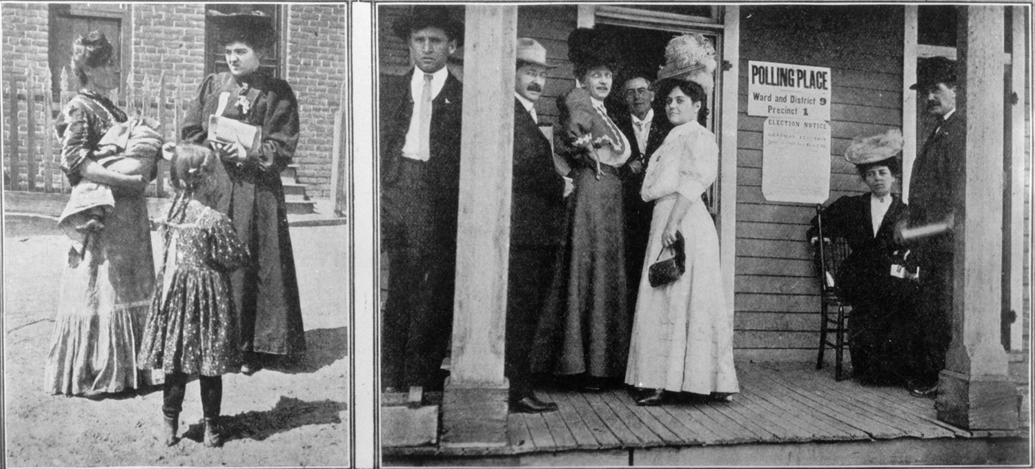 Both men and women are lined up outside a polling station. Ellis Meredith, inspired by progressive women such as her mother, Emily Meredith, and Susan B. Anthony, fought for the right to vote for Colorado women, succeeding in 1893.